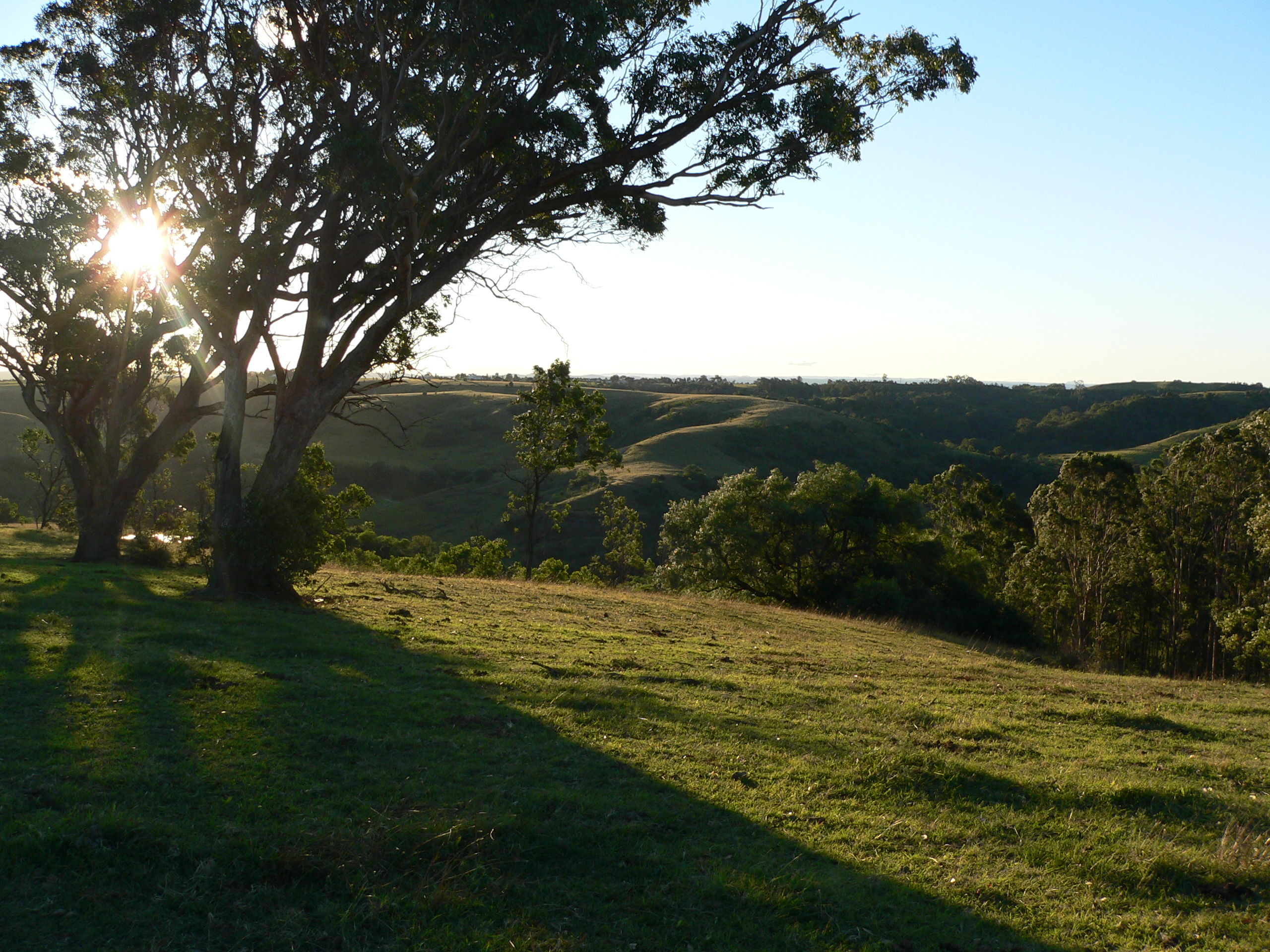 A panoramic view off Razorback, in between Camden and Picton, NSW, Au.